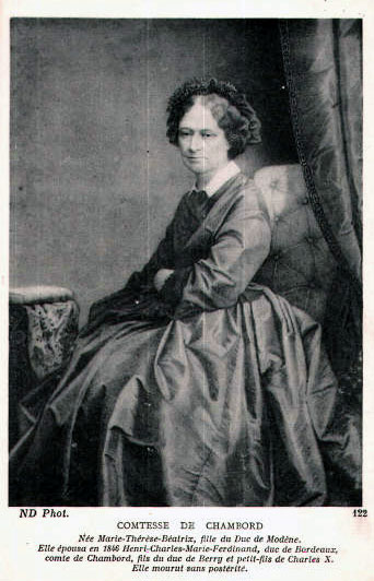 Maria Theresia of Austria-Este (1817–1886), Archduchess of Austria, Princess of Modena, wife of Henri, comte de Chambord